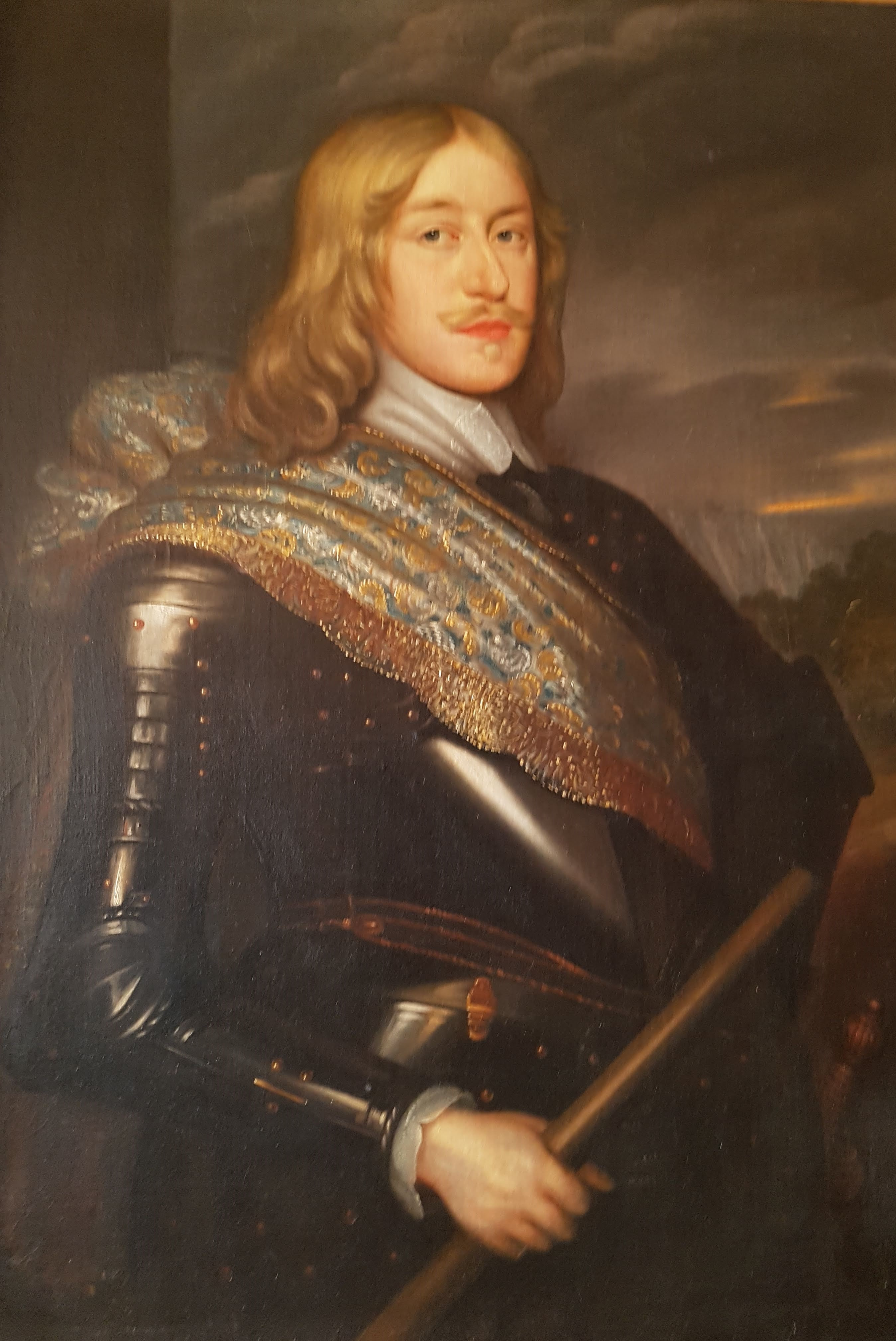 Läckö slott interior portrait of Magnus Gabriel De La Gardie